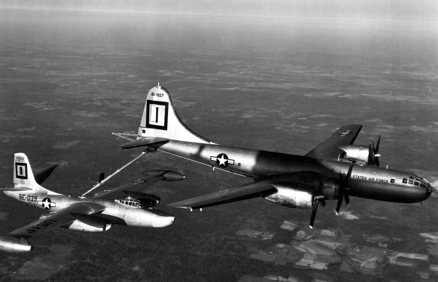 91st Strategic Reconnasance Wing (91 SRW) North American RB-45C Tornado 48-039 being refueled by a 91 SRW Bell-Atlanta B-29B-45-BA Superfortress 44-83927 (in KB-29P configuration)